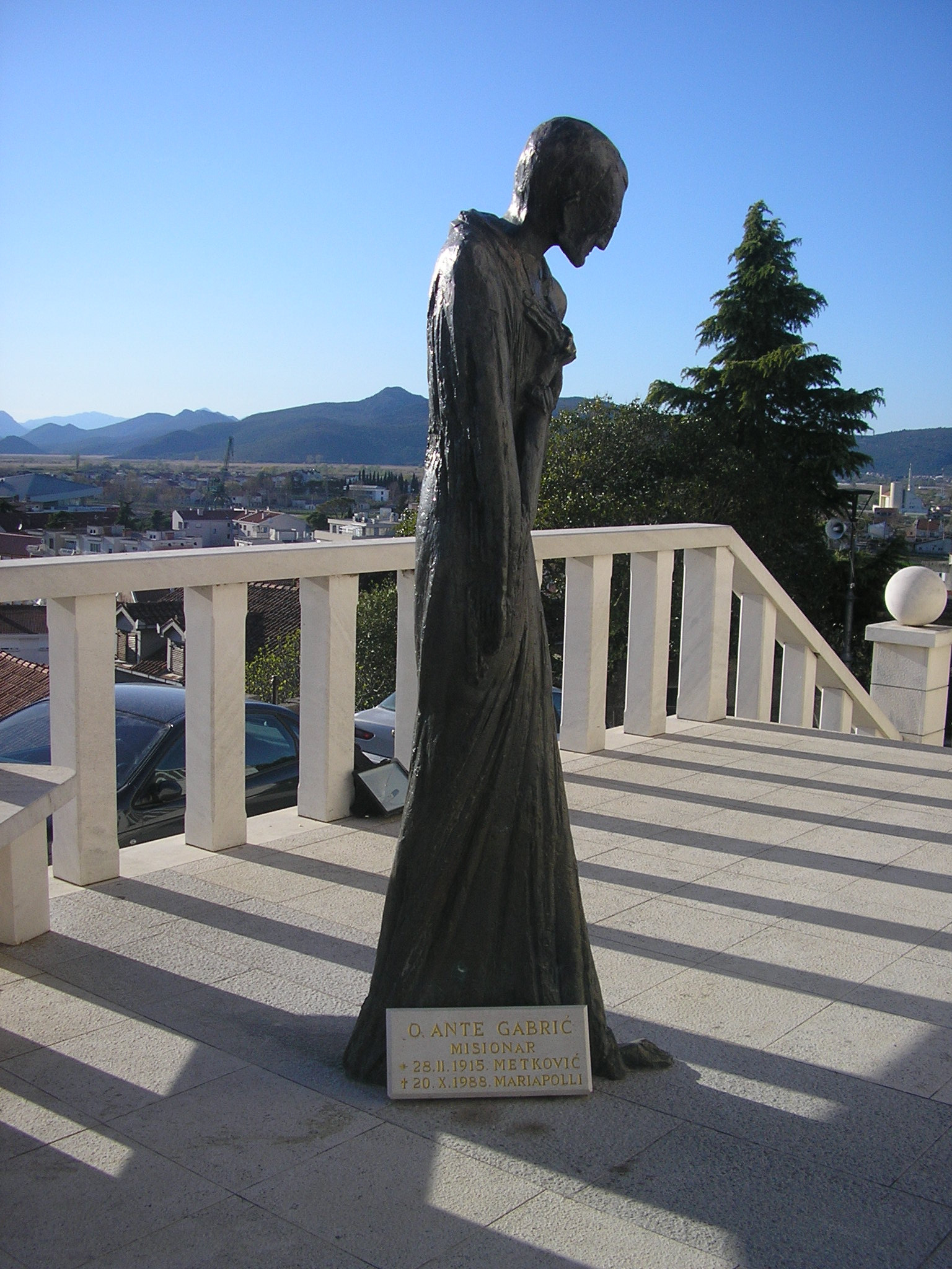 Father Ante Gabrić monument near Saint Elijah church in Metković